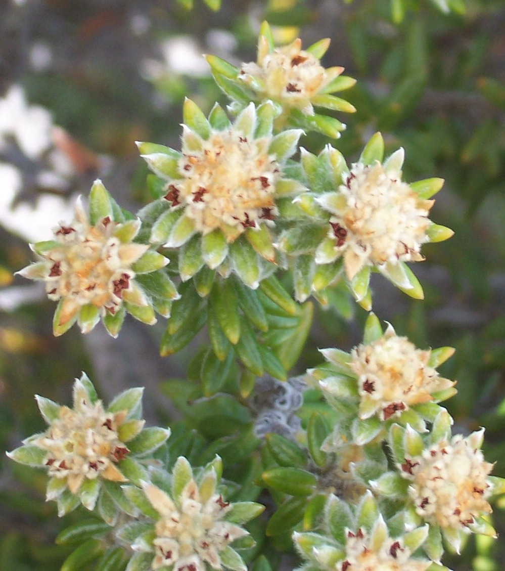 Phylica nitida (flowers) fr : ambaville bâtard Photo: B.navez - 15 APR 2006 - Réunion island